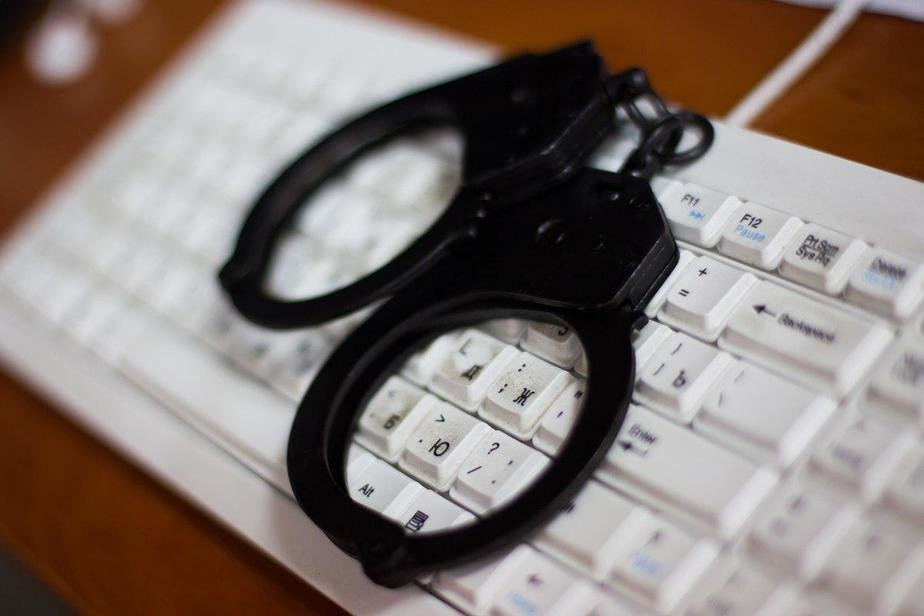 Cybercrime: keyboard and handcuffs